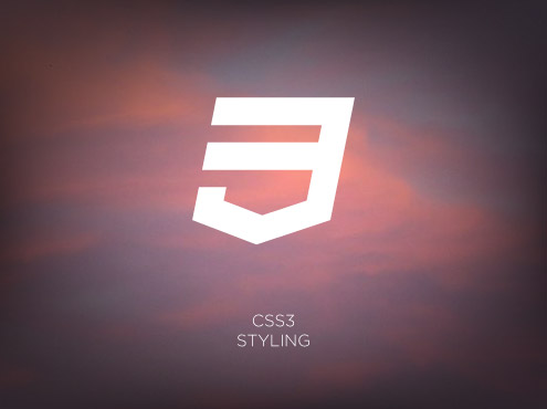 CSS3 Styling